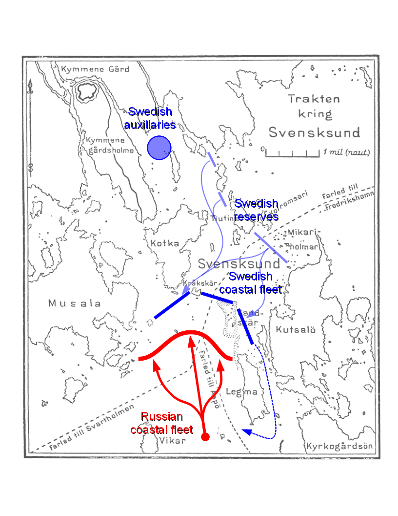 Map of the events related to the second battle of Svensksund in 1790